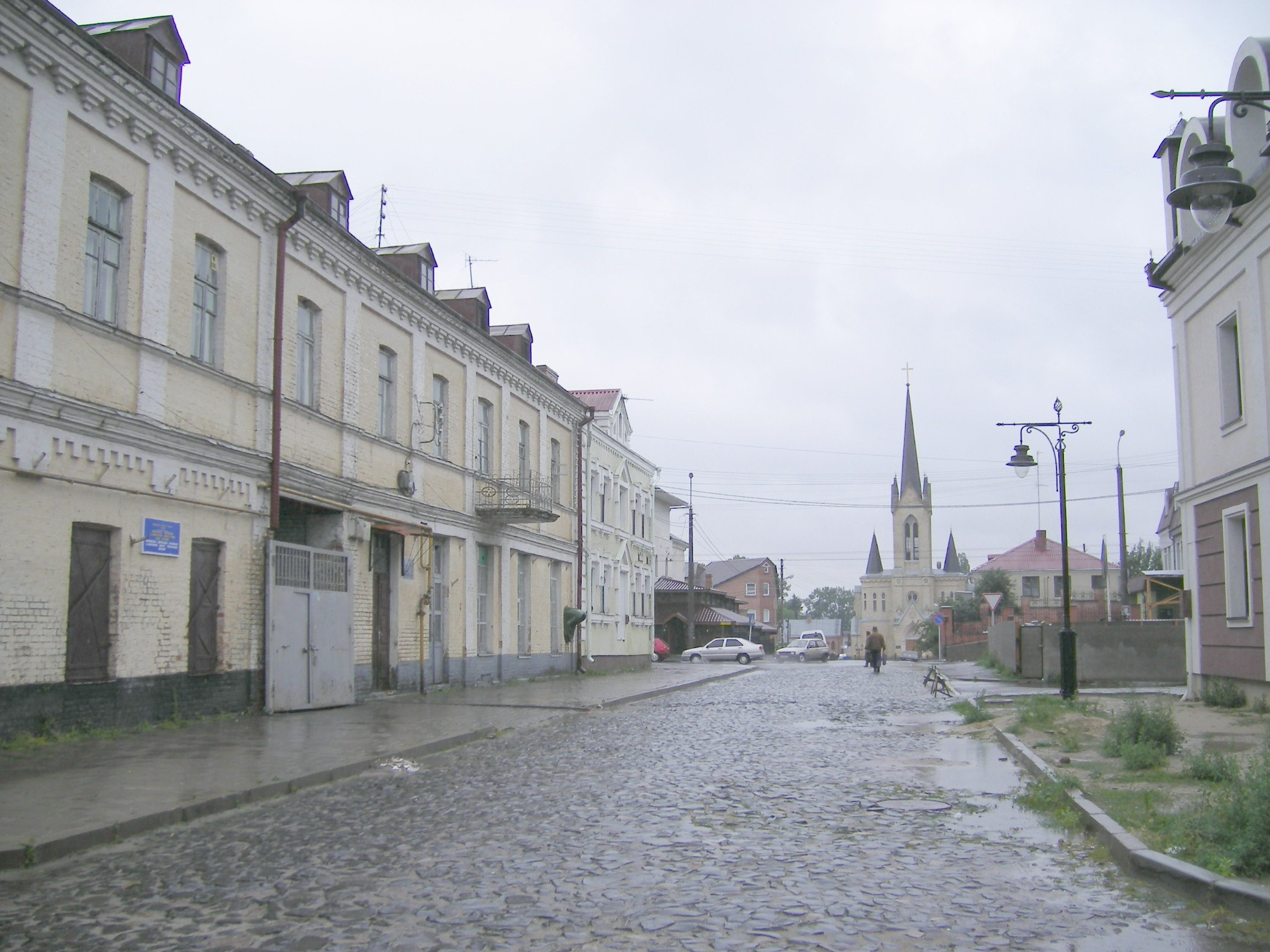 Lutsk, Old Town